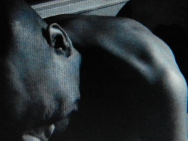 The onset of despair in one diagnosed with schizoaffective disorder.